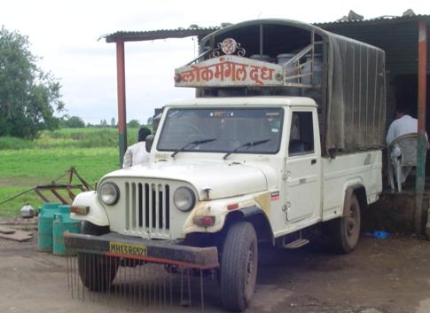 Vehicle carrying milk collected from farmers in the milk cans